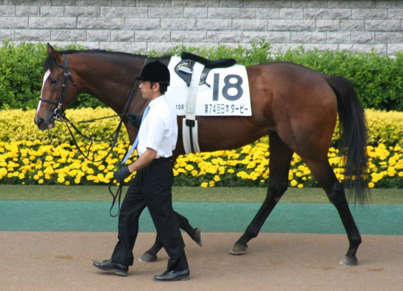 Flying Apple(horse)